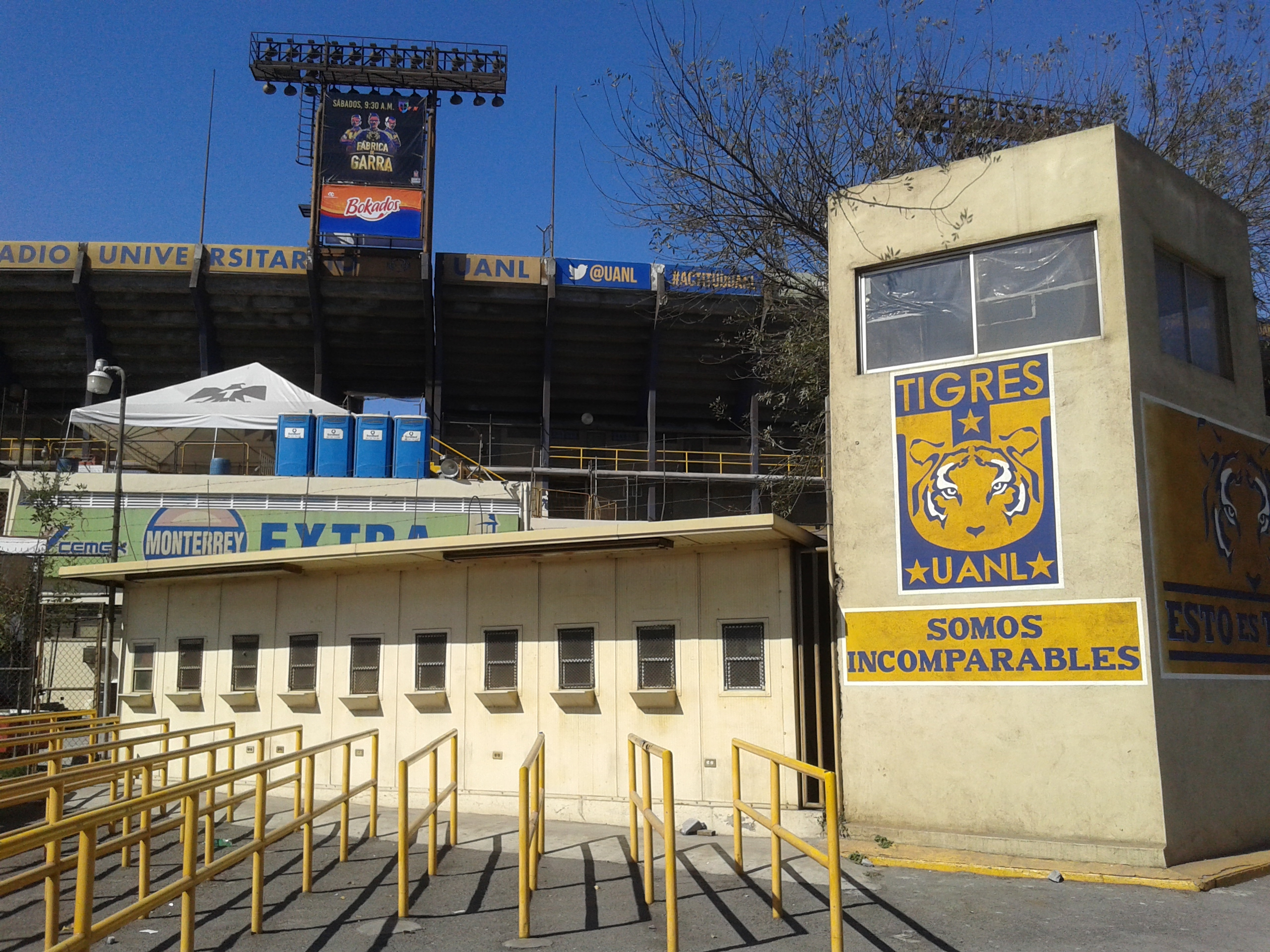 Photogtaphy from the ticket office of the Universitario Stadium taken by me.